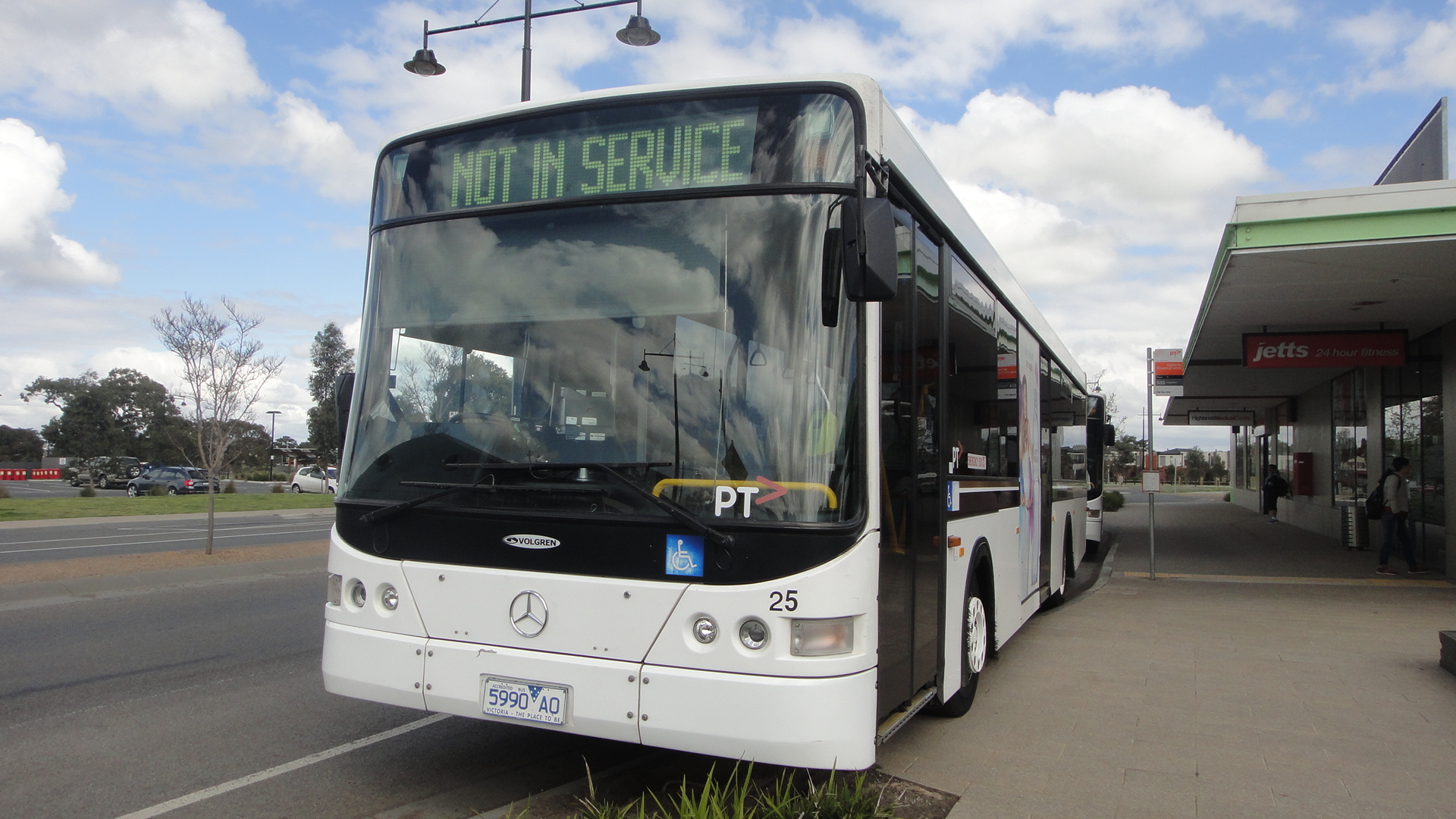 Broadmeadows bus at Cragieburn